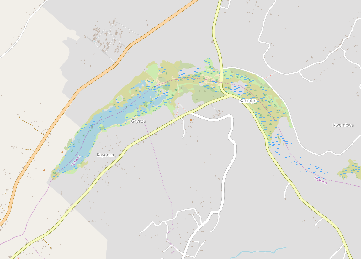 The settlement of Gayaza next to Lake Nakivale, Isingiro, West-Region, Uganda. This map may be incomplete, and may contain errors. Don't rely solely on it for navigation.